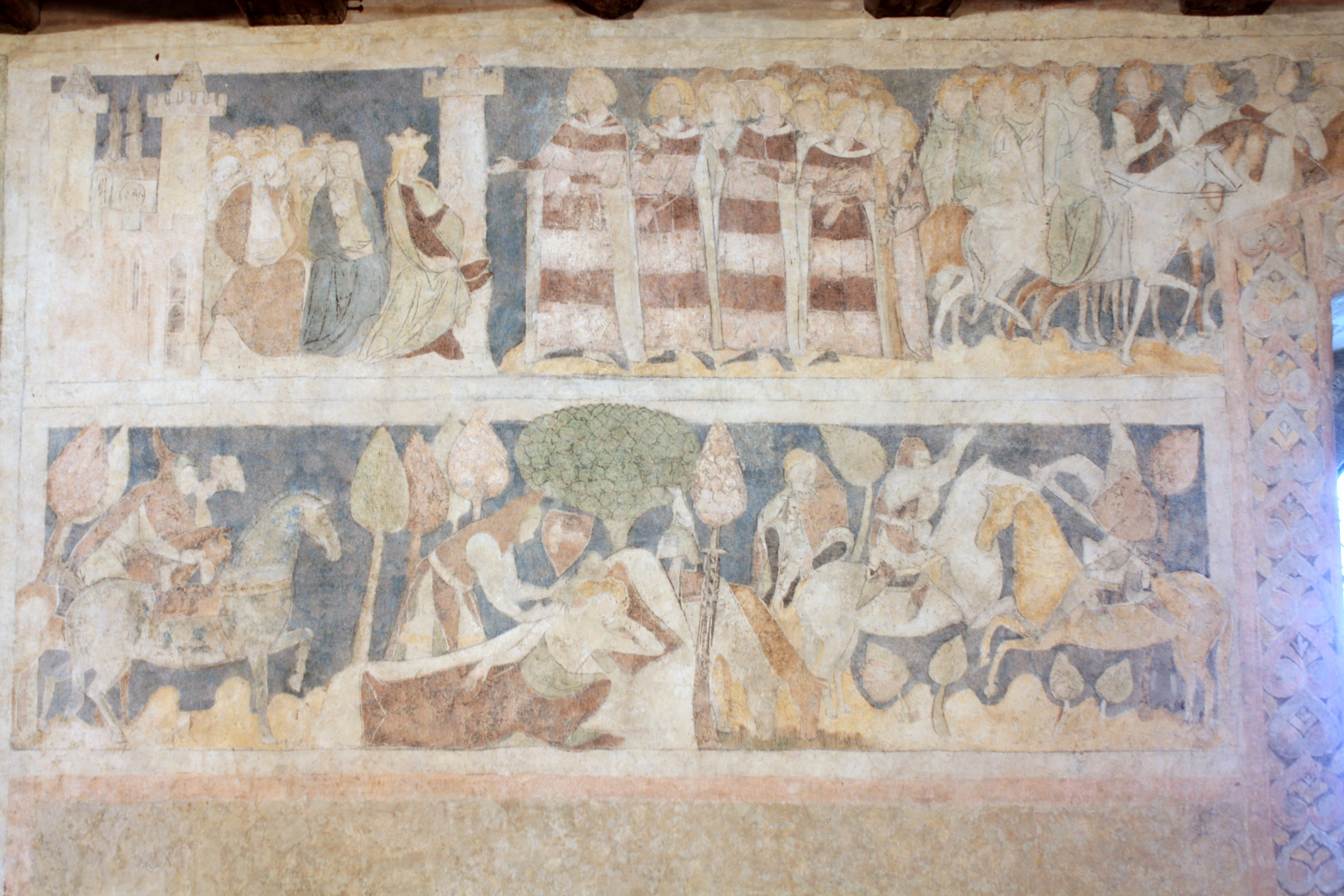 This photo of Lower Silesian Voivodeship was taken during Wikiexpedition 2013 set up by Wikimedia Polska Association. You can see all photographs in category Wikiekspedycja 2013. English | Polski | +/−